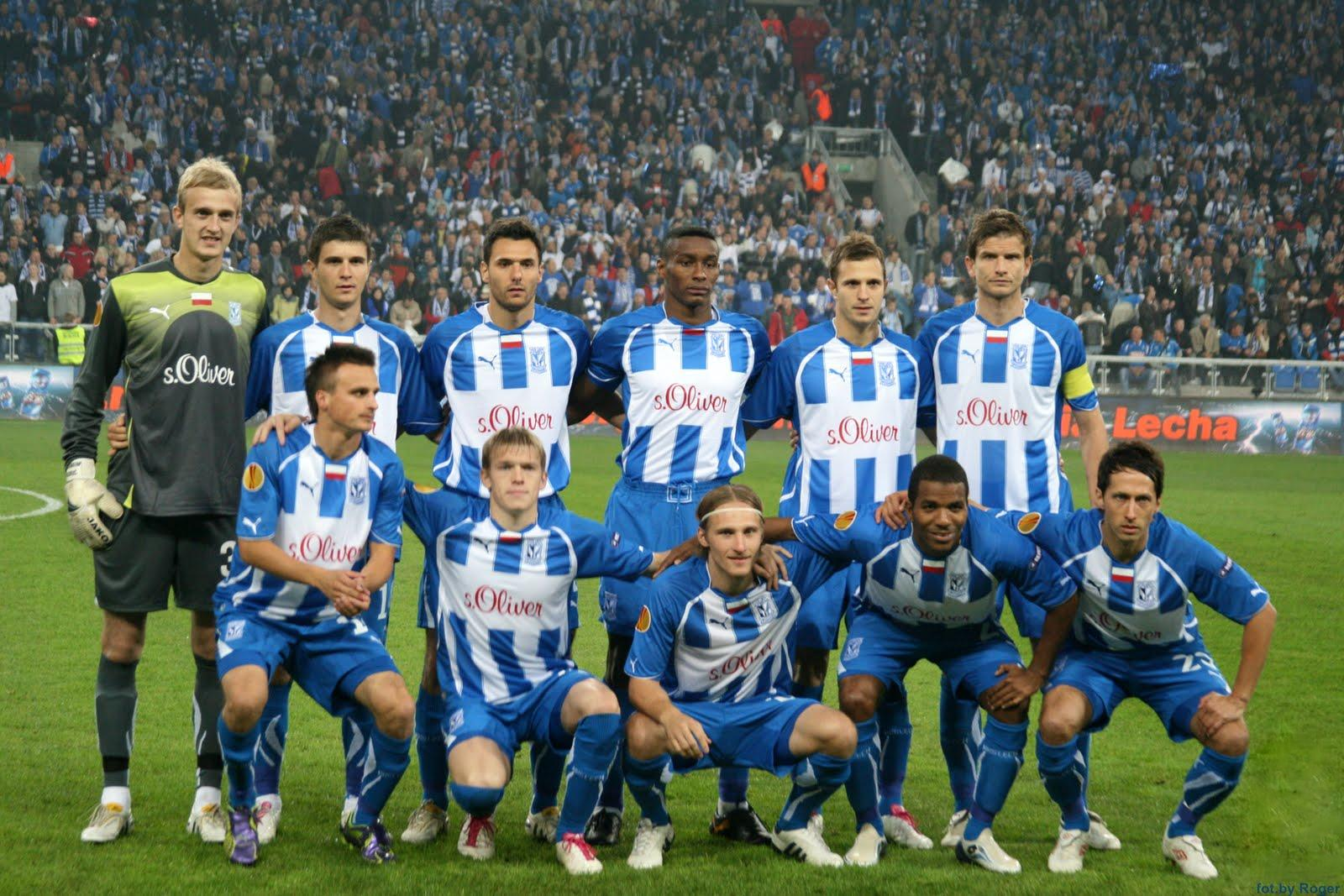 KKS Lech Poznań - polish football club before Europa League match agains FC Salzburg